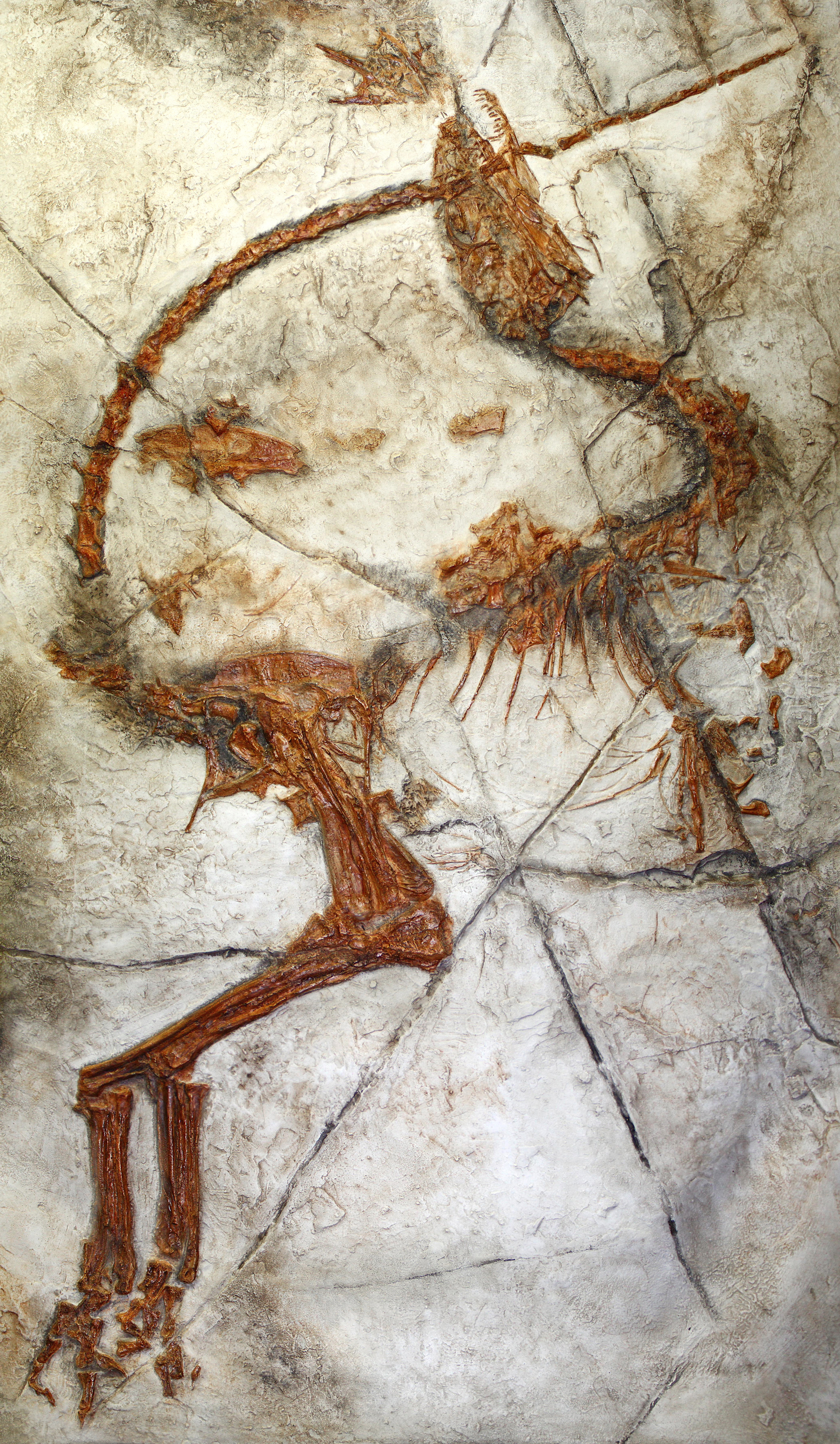 Sinosauropteryx GMV 2124, Replica, Compsognathidae, Yixian Formation, Early cretaceaous, Liaoning Province, China; Staatliches Museum für Naturkunde Karlsruhe, Germany.